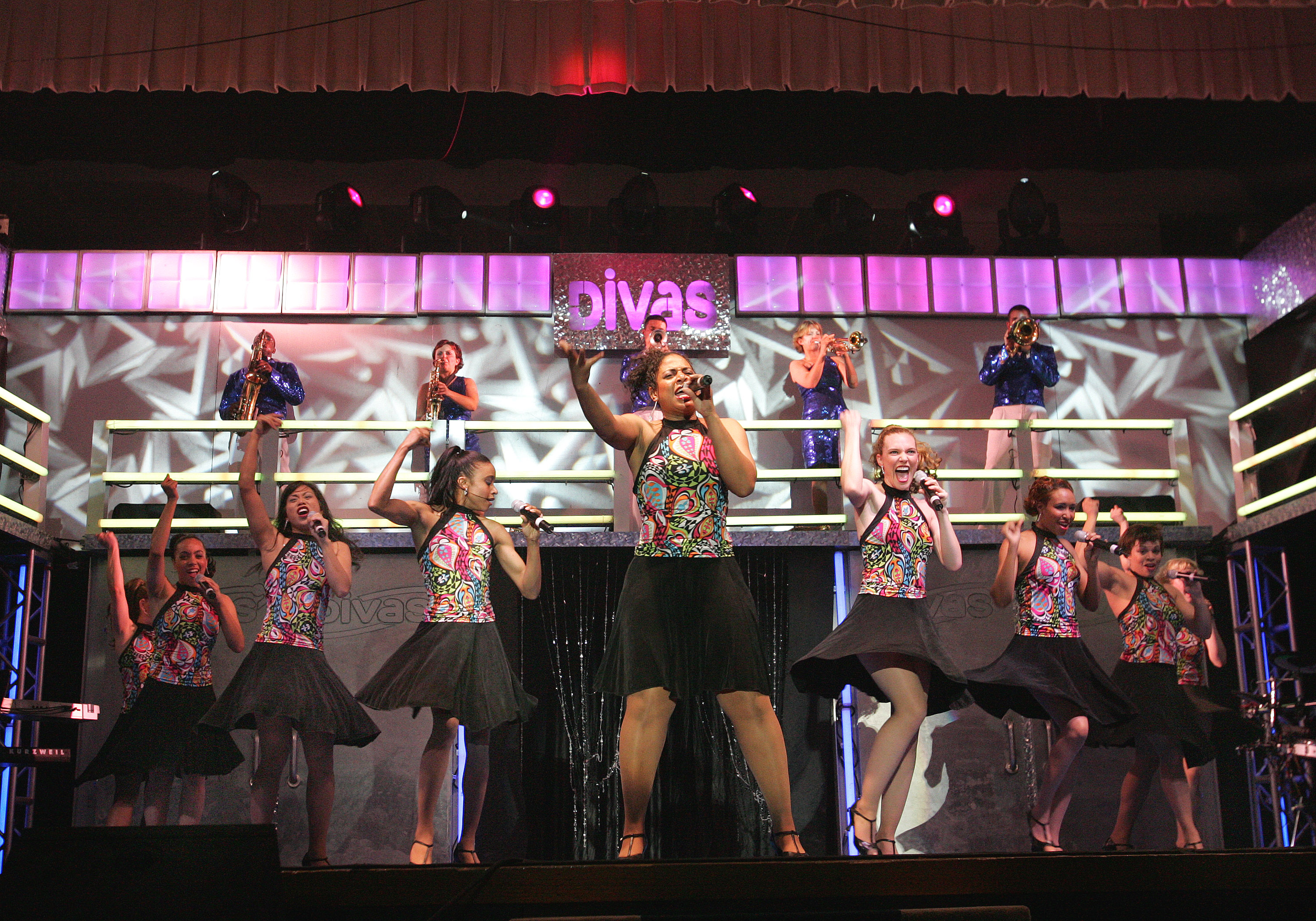 Tops in Blue giving their last 2005 performance of the year March 15 to 17, 2006, at the Bob Hope Theater at Lackland Air Force Base, Texas.